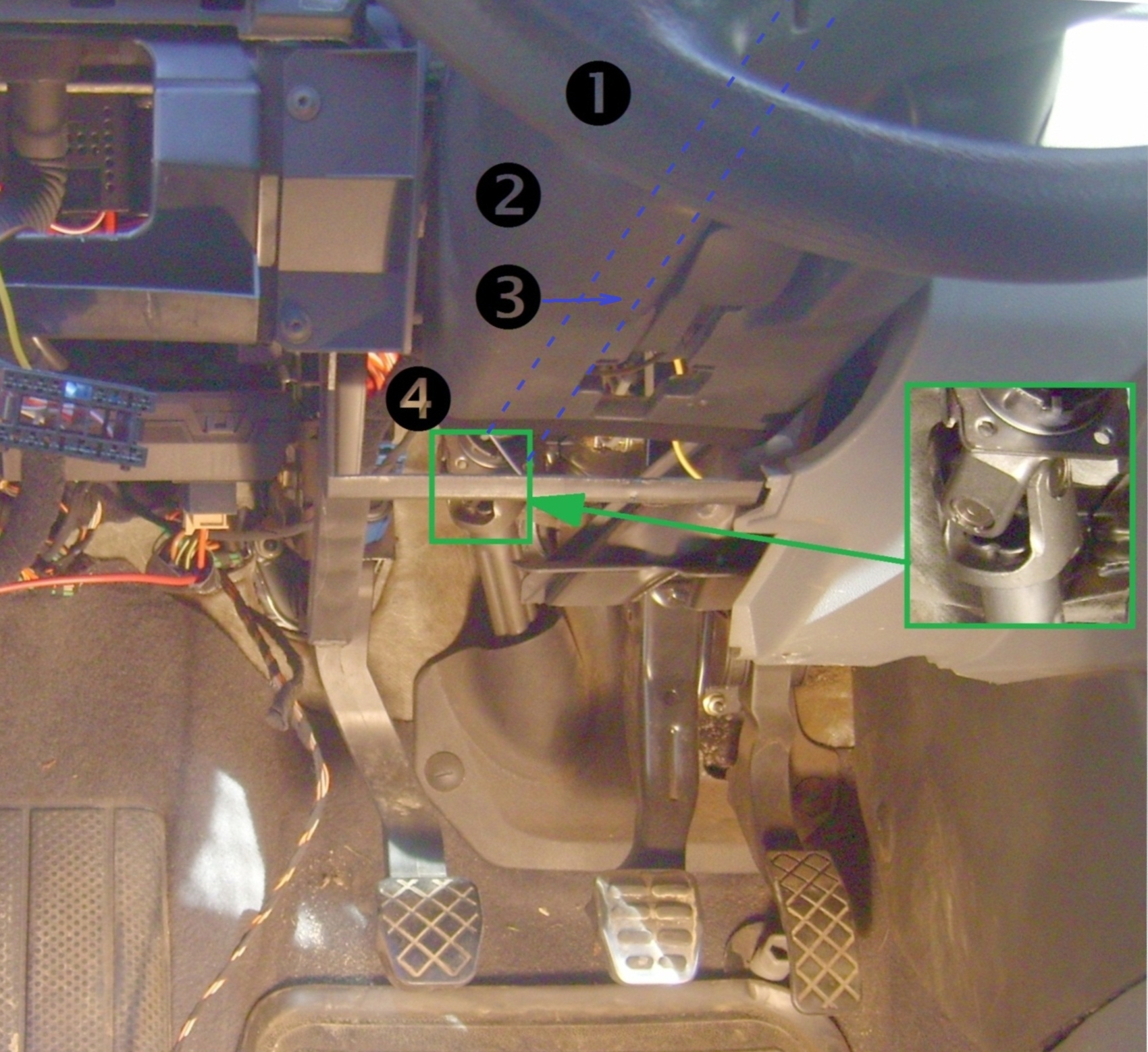 Škoda Fabia I 1 steering wheel 2 case 3 Steering column (hidden by the case - blue dashed line) 4 Universal joint